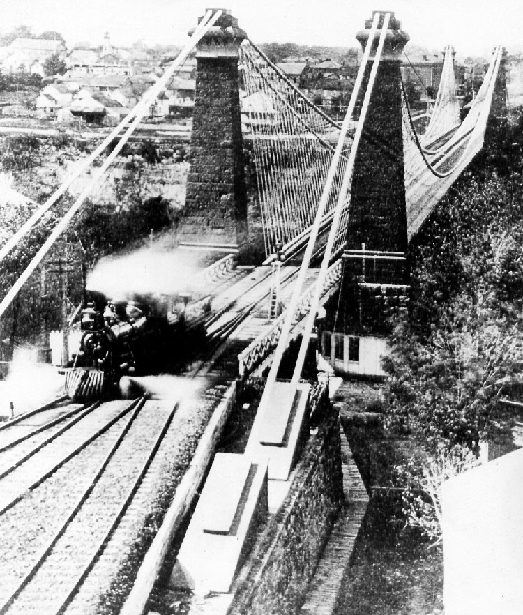 Photo shows the crossing of a locomotive over the Niagara Suspension Bridge, along with the triple gauge railway on the bridge.